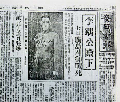 Death of Prince Yi Wu, Maeil Sinbo (present-day: Seoul Sinmun), August 9, 1945